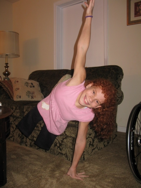 Jessica Rogers an acomplished athlete who was born with a condition called lumbo sacral agenesis/caudal regression syndrome